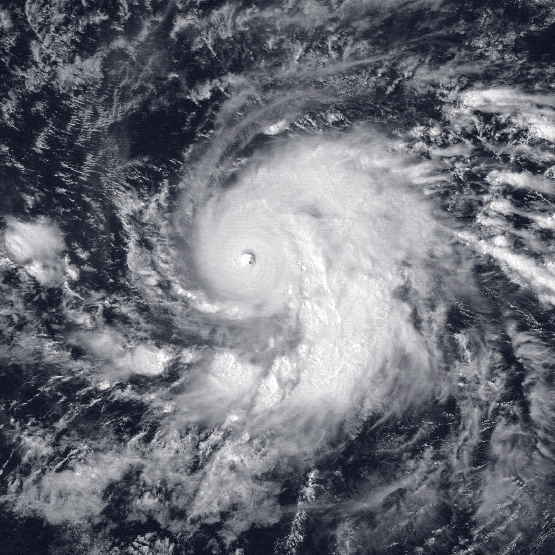 Hurricane Gilma near peak intensity in the central Pacific Ocean on July 24, 1994